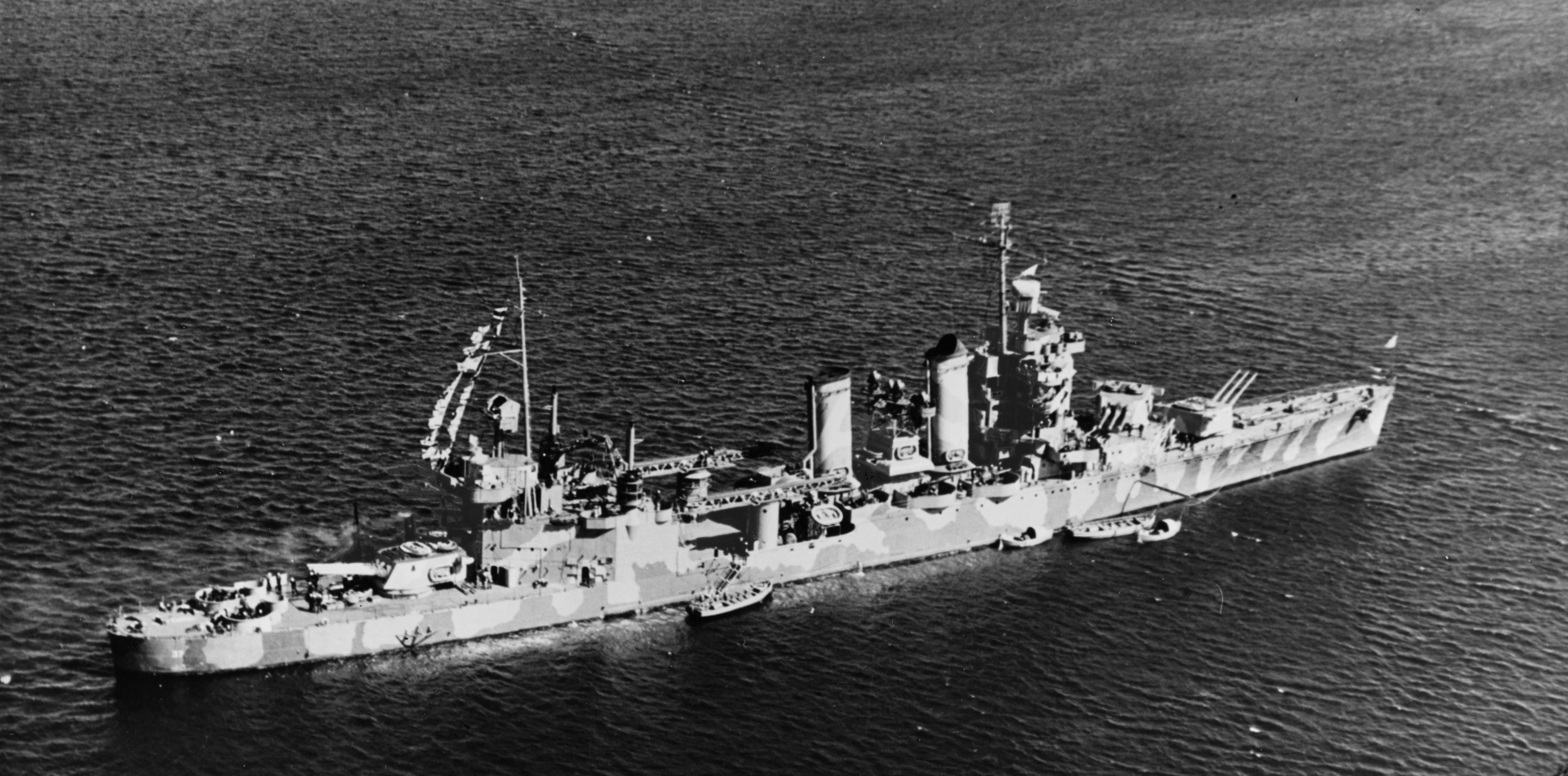 The U.S. Navy heavy cruiser USS Tuscaloosa (CA-37) moored in Scapa Flow, in April 1942, while she was operating with the British Home Fleet.